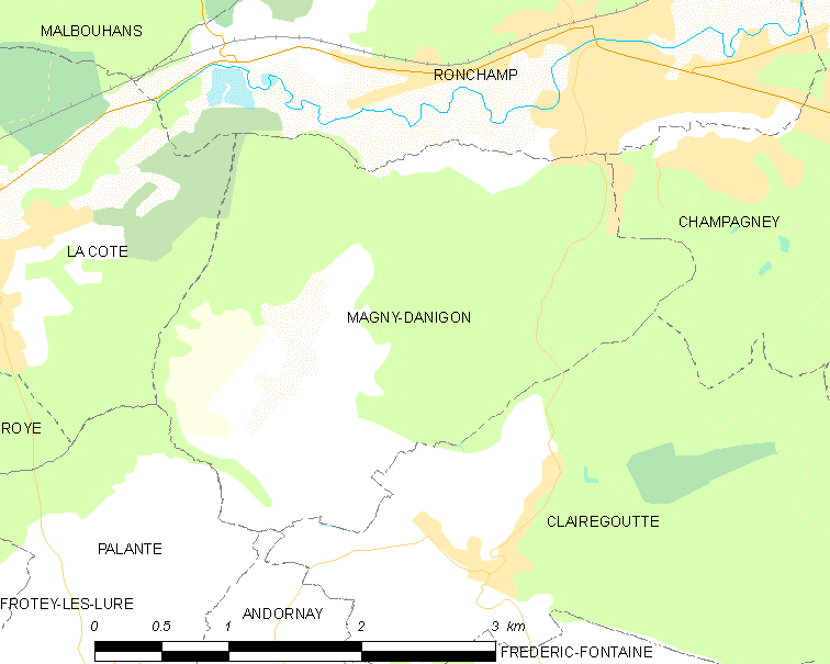 Map of French municipality